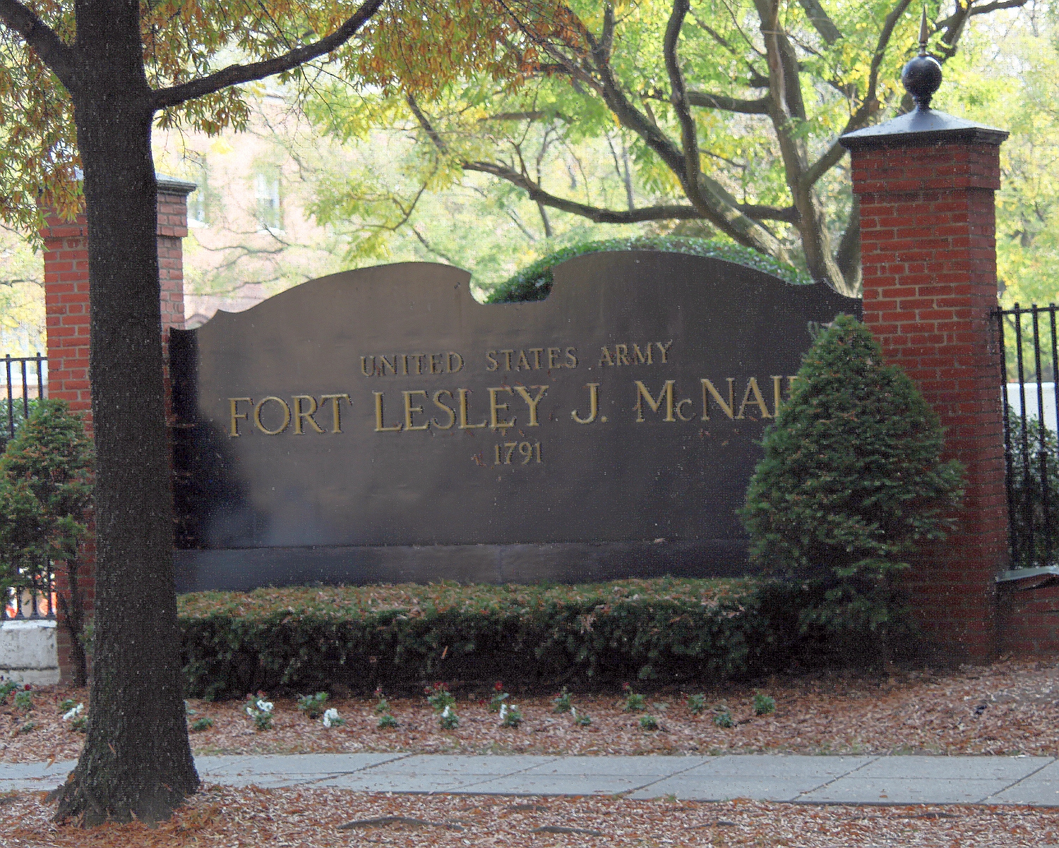 Fort Lesley J McNair - front sign - Washington DC.